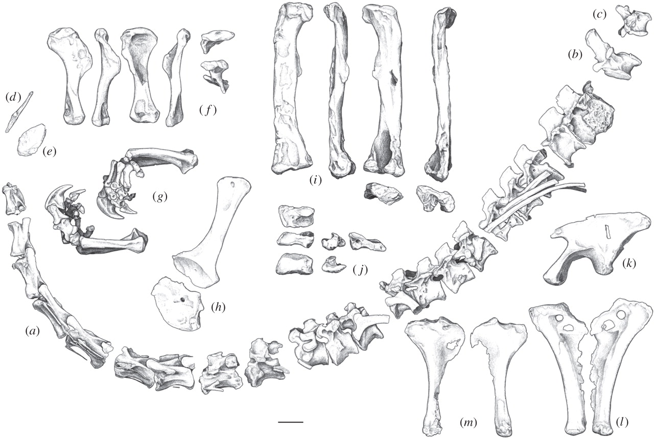 Sarahsaurus aurifontanalis, holotype (TMM 43646-2): (a) presacral vertebral column from vertebrae 2 to 22; (b) second caudal vertebra; (c) mid-caudal vertebra; (d) left clavicle in medial view; (e) left sternal plate in ventral view; (f) right humerus in dorsal, lateral, ventral, medial, proximal and distal views; (g) right antebrachium and manus in lateral and medial views; (h) left scapula and coracoid; (i) right femur in anterior, medial, posterior, lateral, proximal and dorsal views; (j) right astragalus in distal, posterior, ventral, medial, lateral and anterior views; (k) left ilium in lateral view; (l) pubes in anterior view and (m) left and right ischia, in lateral view. Scale bar, 5 cm.